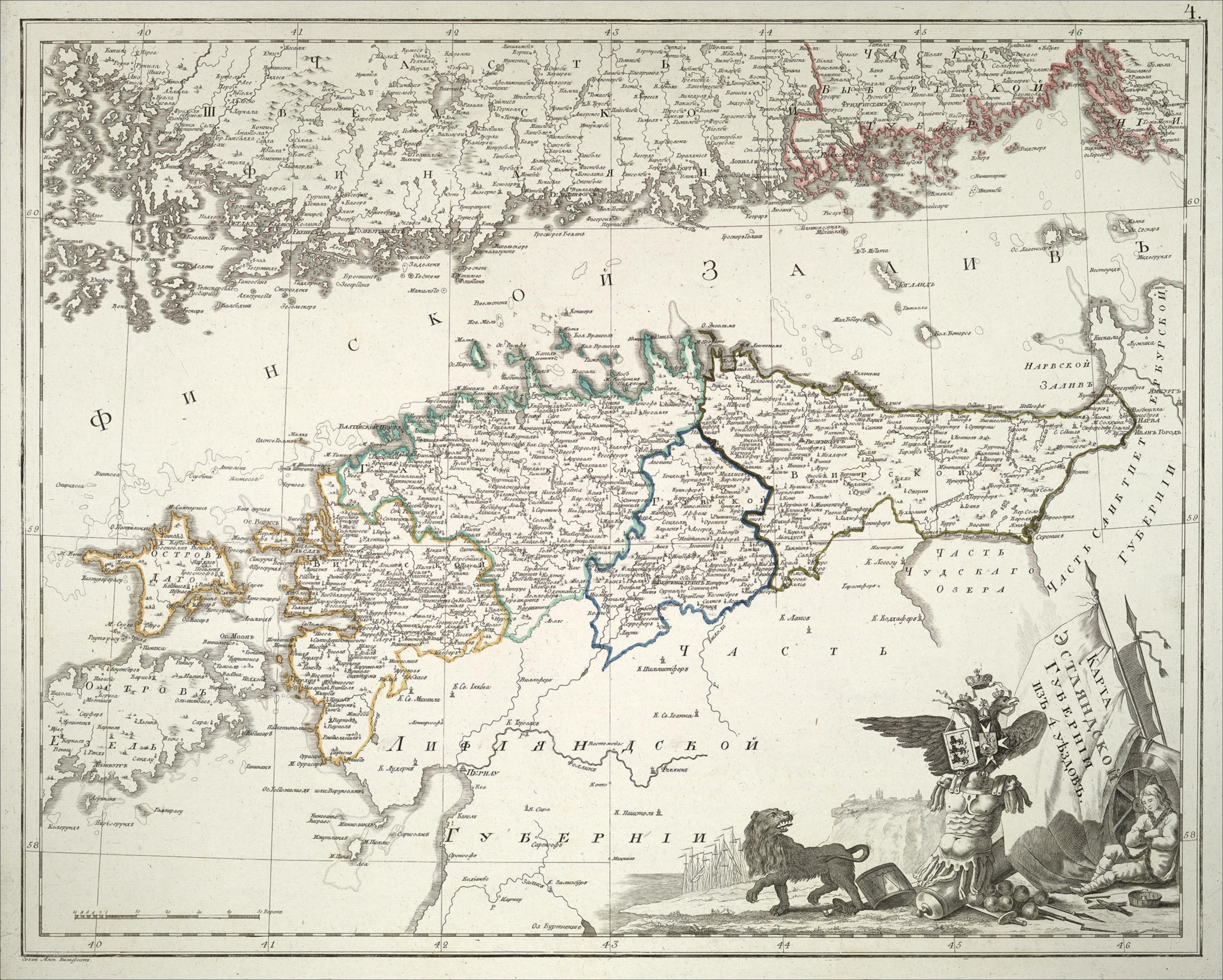 Atlas of Russian Empire. 1800 year. List 4. Estlyandskaya Province from 4 uyezds